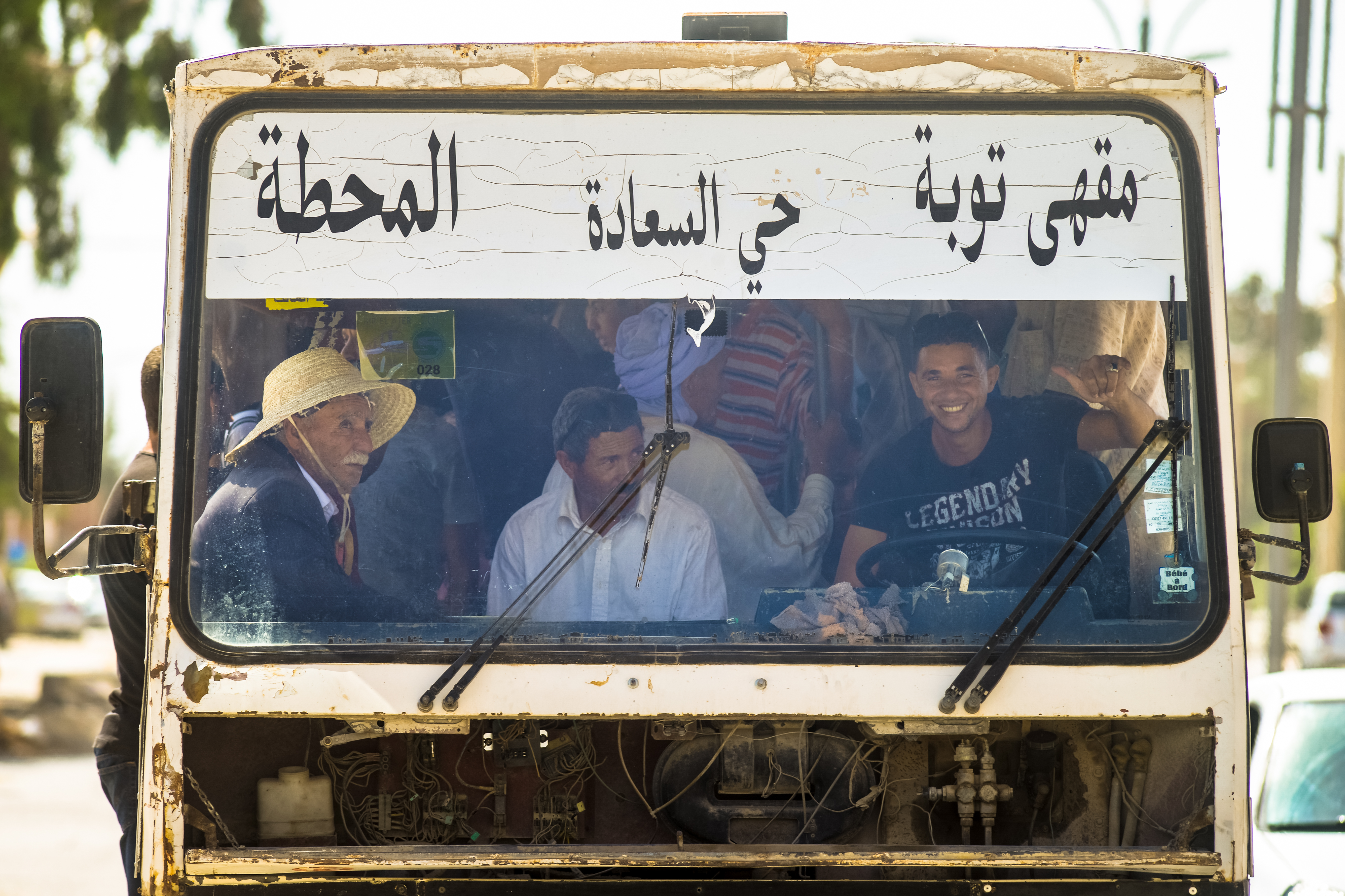 This is an image with the theme "Africa on the Move or Transport" from: Algeria